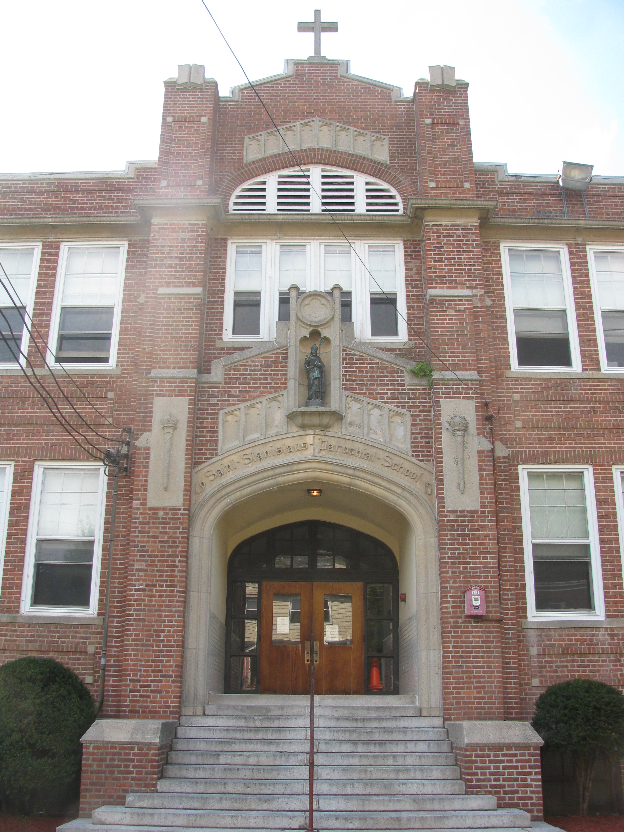 A photograph of the main entrance of Saint Stanislaus Parochial School taken by Mateusz Rogalski.